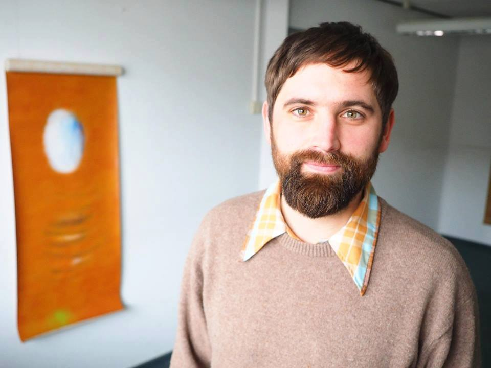 A picture of the German Artist Alexander Karle shot by Nicole Burkhardt.